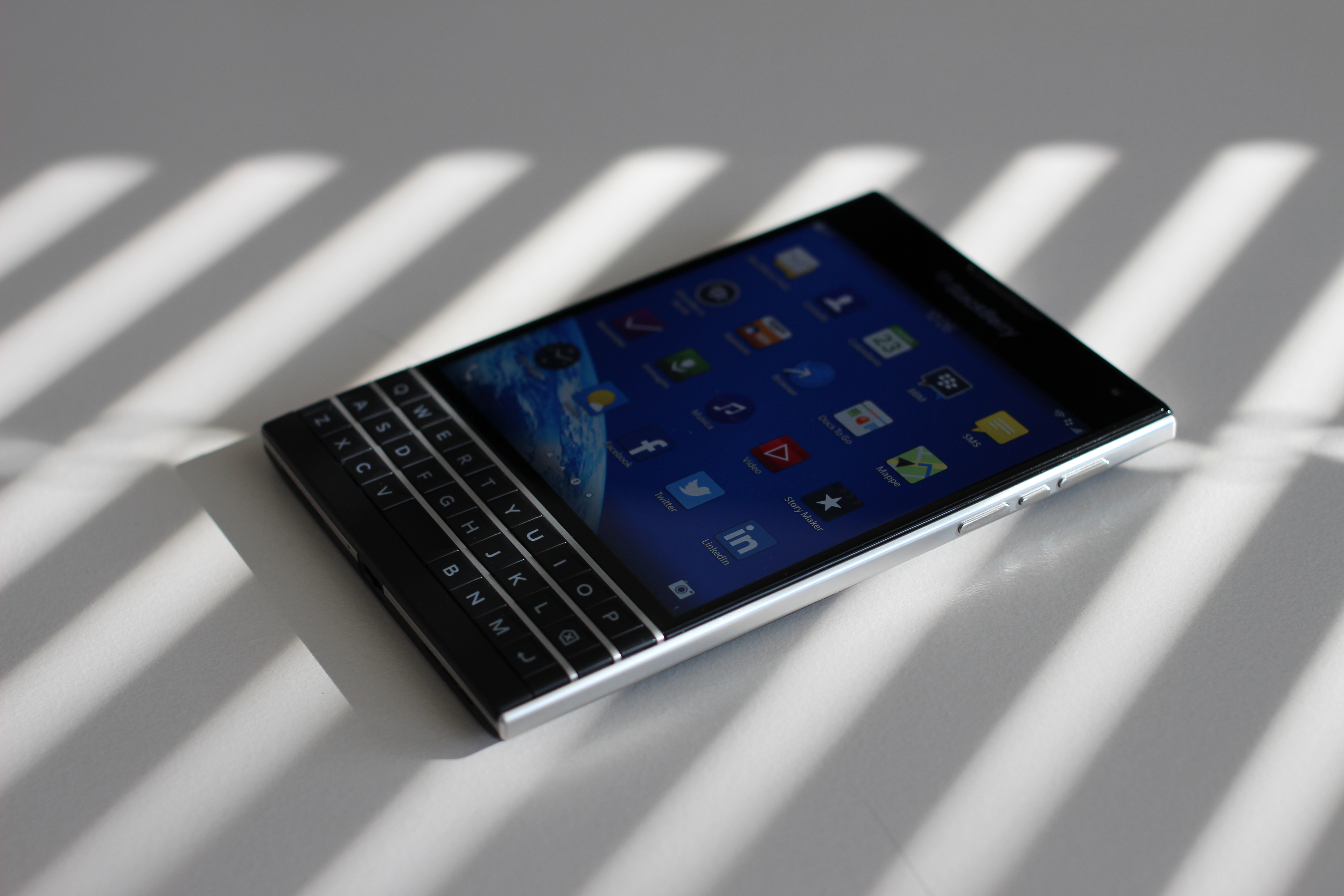 BlackBerry Passport